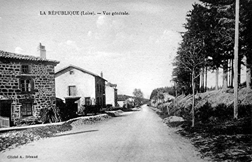 A general view of the hamlet of Republique in the Loire department, from circa 1910-20. Originally published as a postcard.